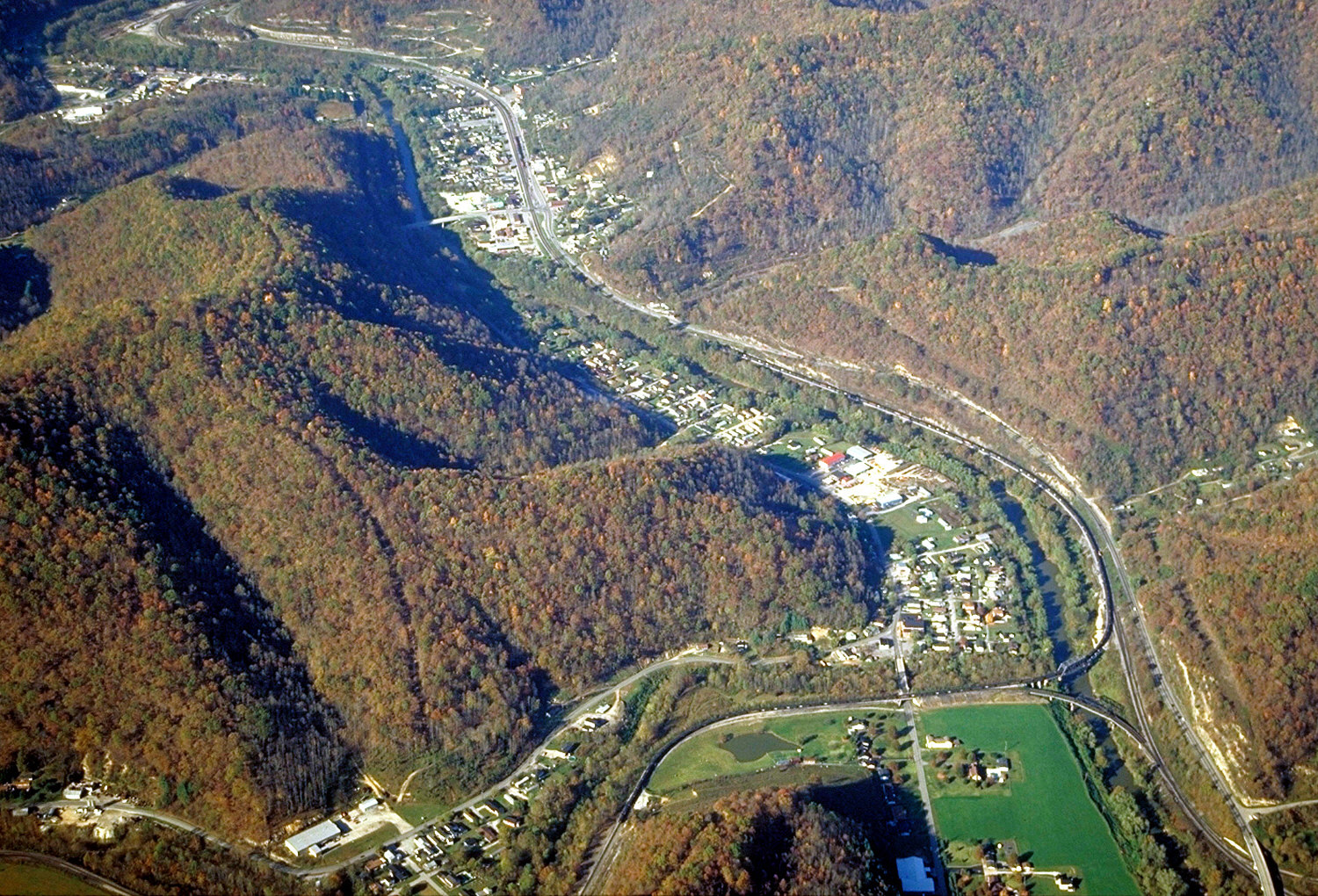 Communities along the Tug Fork River in Kentucky and West Virginia, USA. The Tug Fork is the state boundary between Kentucky and West Virginia here. The view is northward along the river. The community of Lovely, Martin County, Kentucky is in the foreground on the left of the river. Upriver to the right lies the community of Kermit, West Virginia, in Mingo County. In the upper-left corner of the picture is the town of Warfield, Kentucky. In the 1990s the U.S. Army Corps of Engineers constructed levees and floodwalls to protect the towns from flooding on the Tug Fork. Note that this picture is flipped left-to-right from the source photograph. After studying the source photo on the USACE website and satellite images of the area, it was determined that the original photograph has been erroneously flipped.